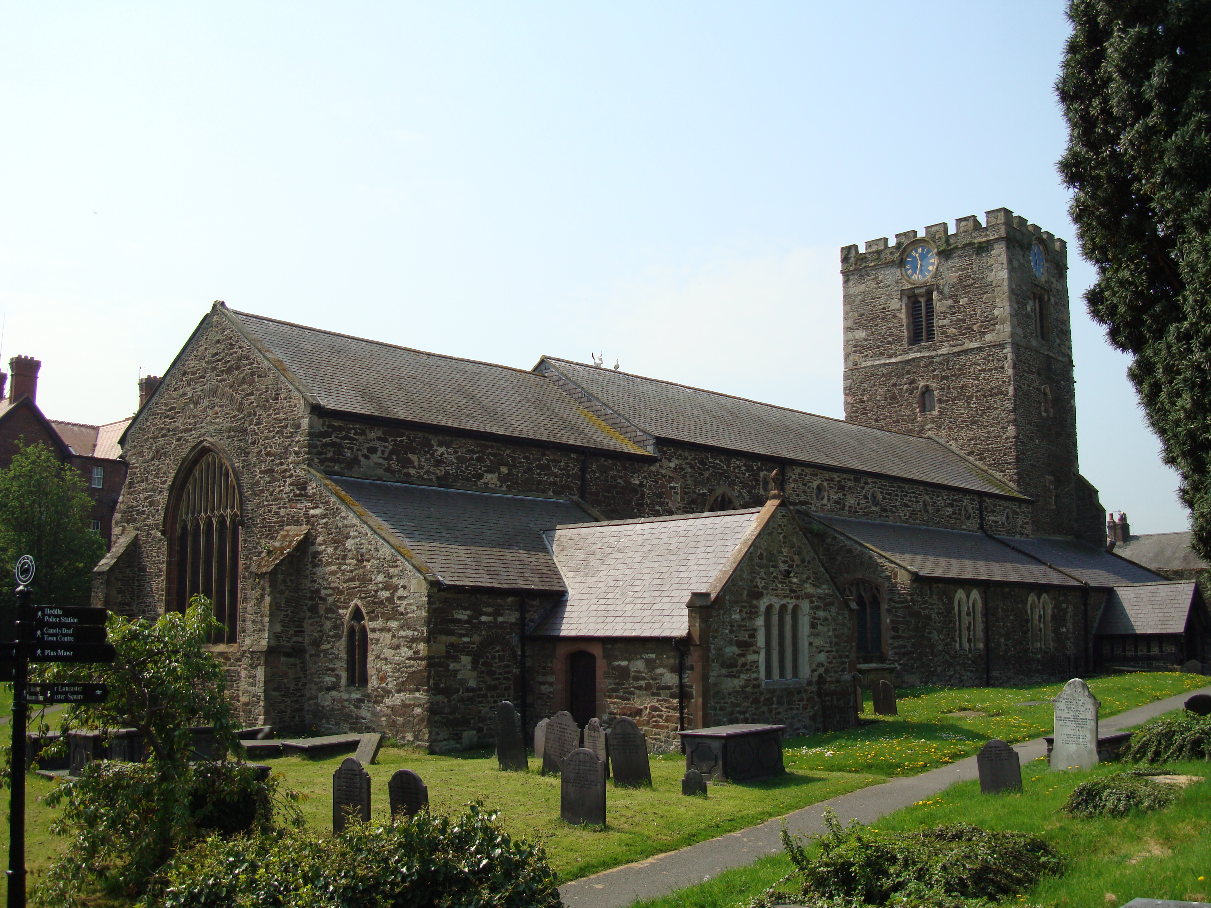 Photograph of Aberconwy Abbey, Conwy, Conwy County Borough, Wales